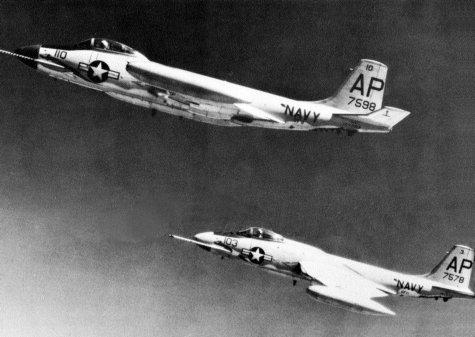 Two U.S. Navy McDonnell F2H-4 Banshee (BuNo 127578, 127598) from Fighter Squadron VF-11 "Red Rippers" in flight. VF-11 was assigned to Air Task Group 201 (ATG-201) aboard the aircraft carrier USS Essex (CVA-9) for a deployment to the Mediterranean Sea, the Indian Ocean, and the Western Pacific from 2 February to 17 November 1958.